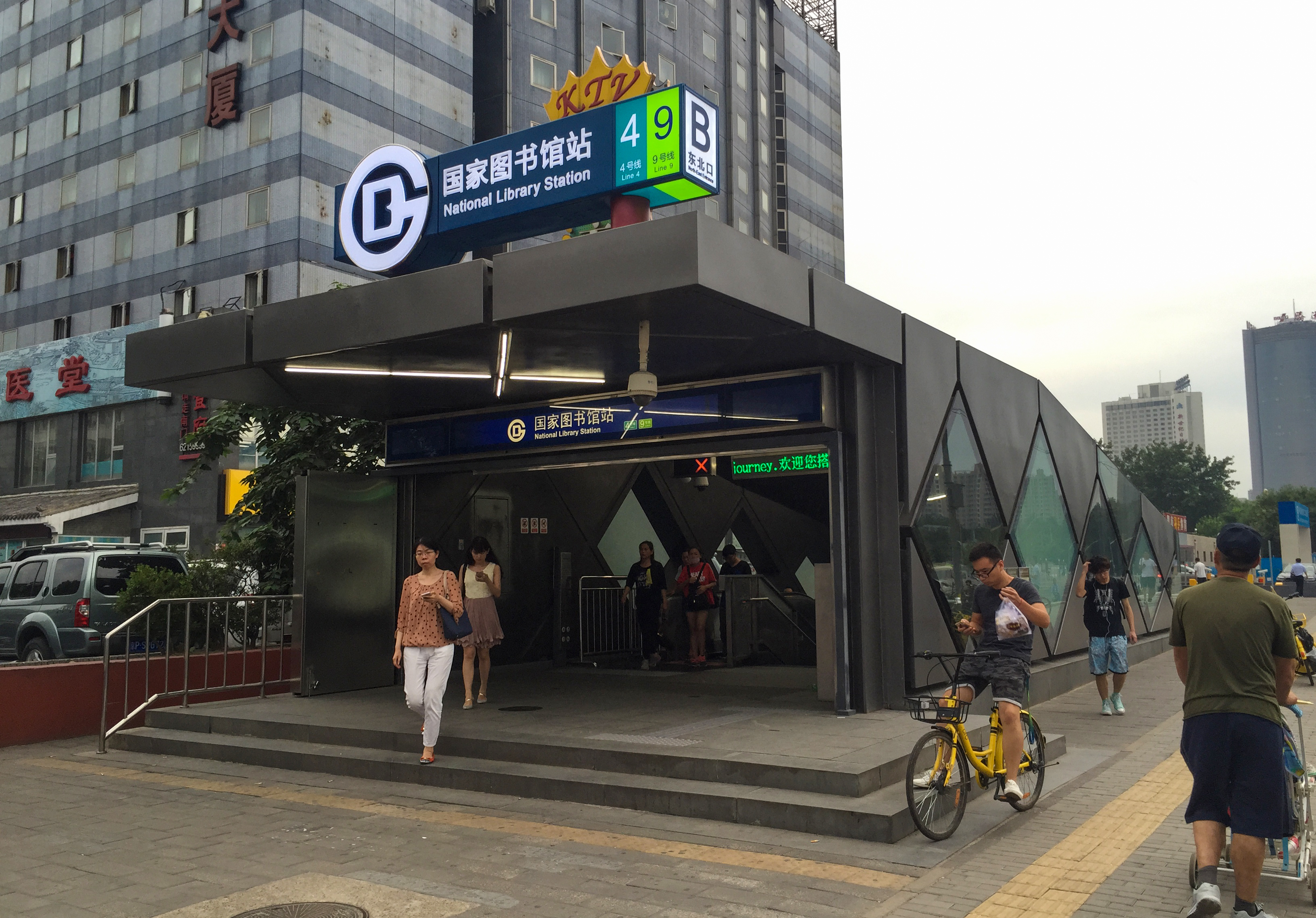 New billboard.